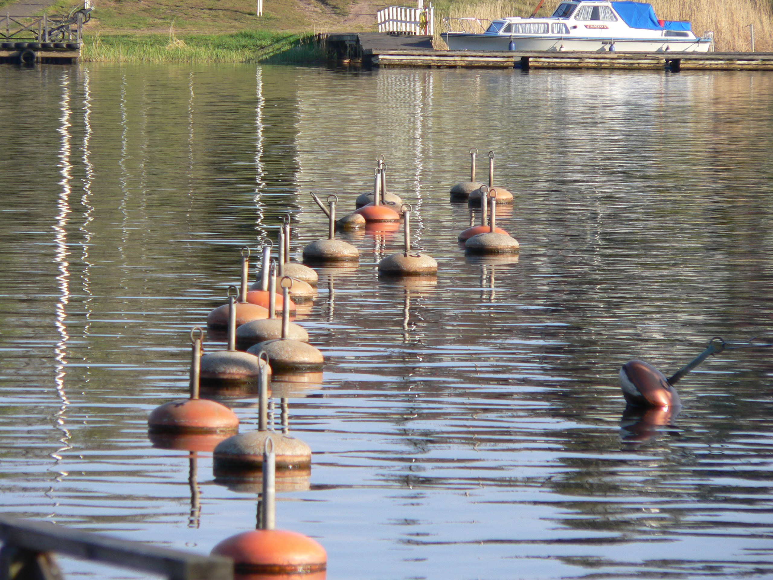 Buoys